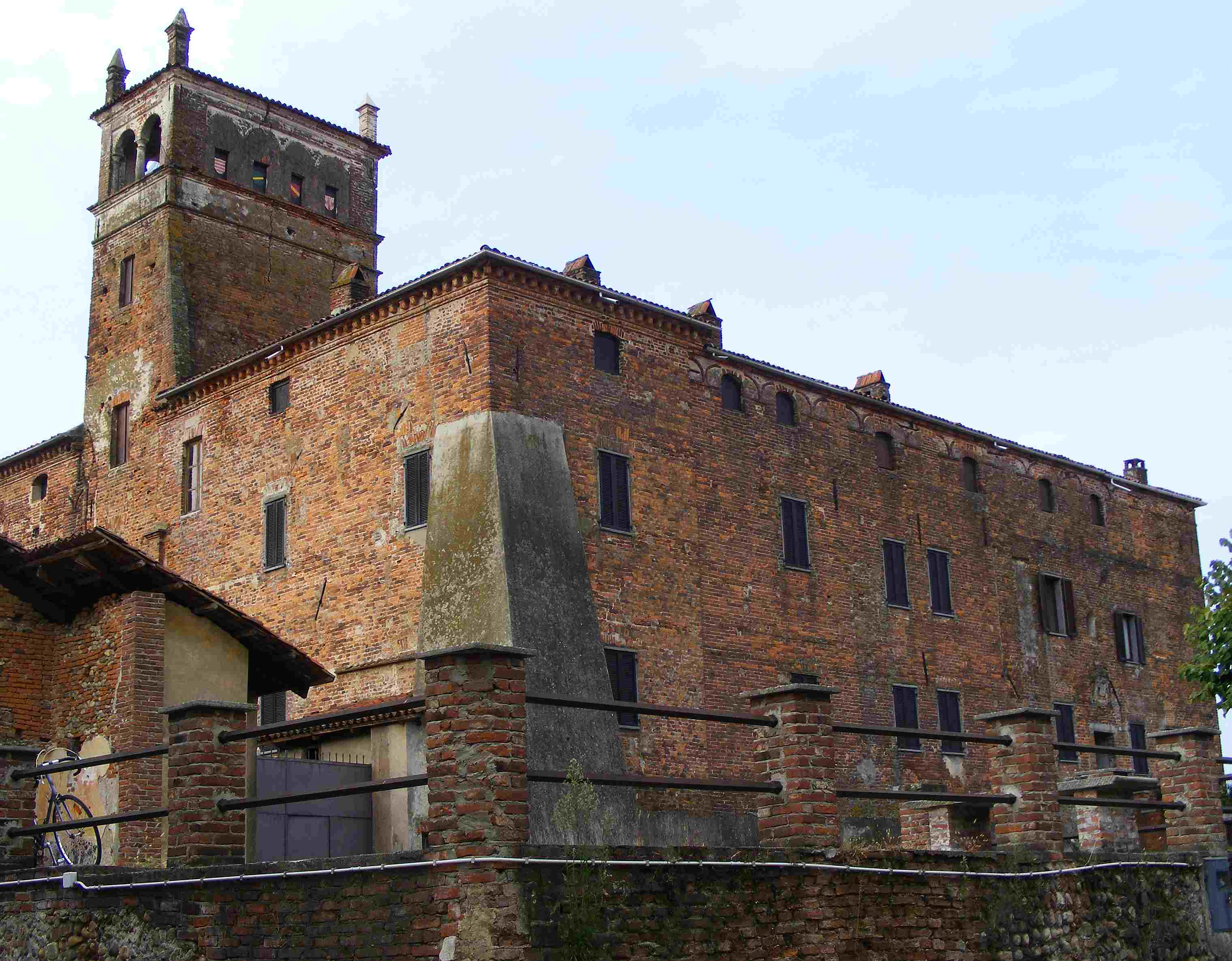 Castle of Villarboit (VC, Italy)